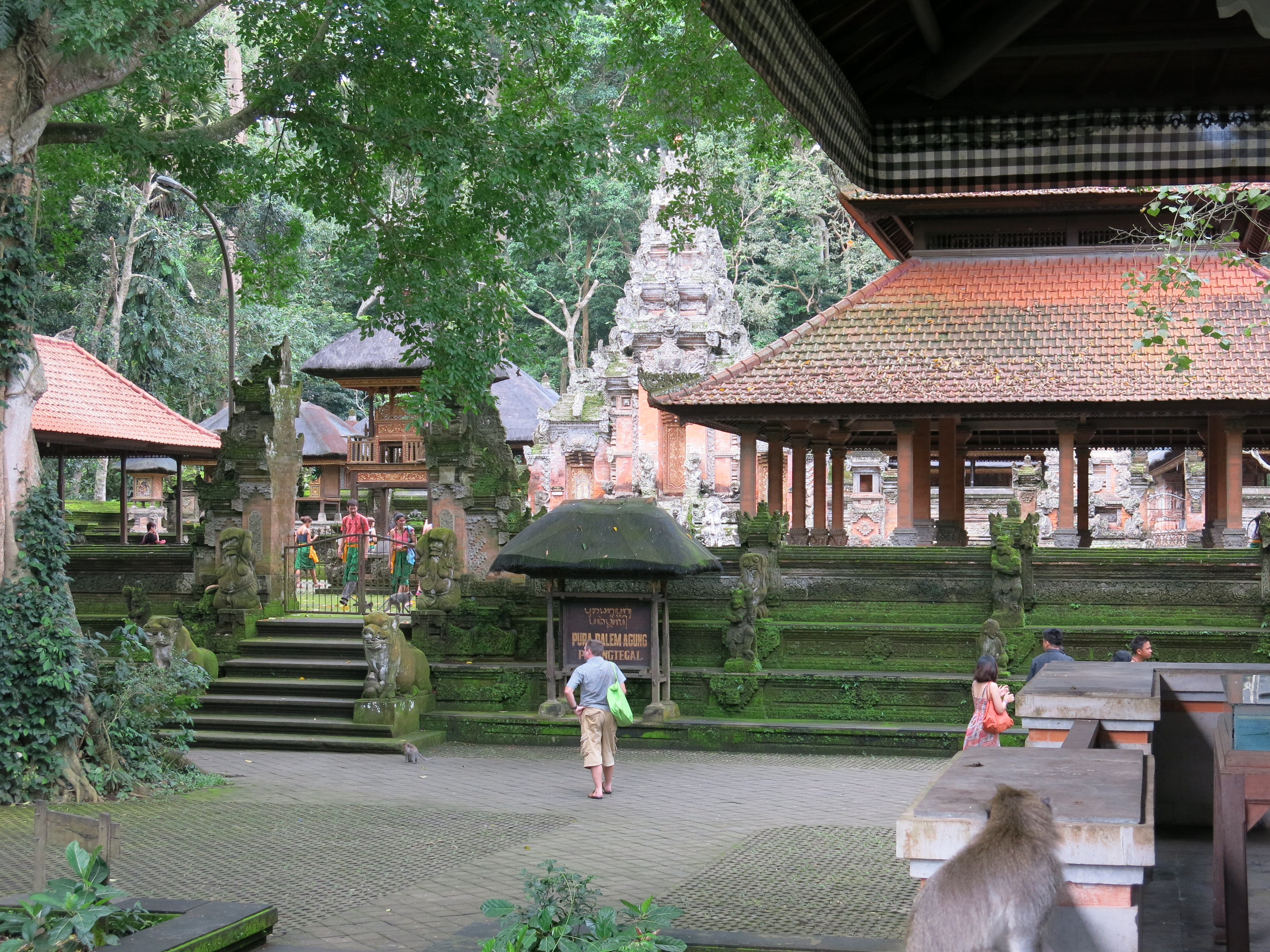 Ubud Monkey Forest on Bali